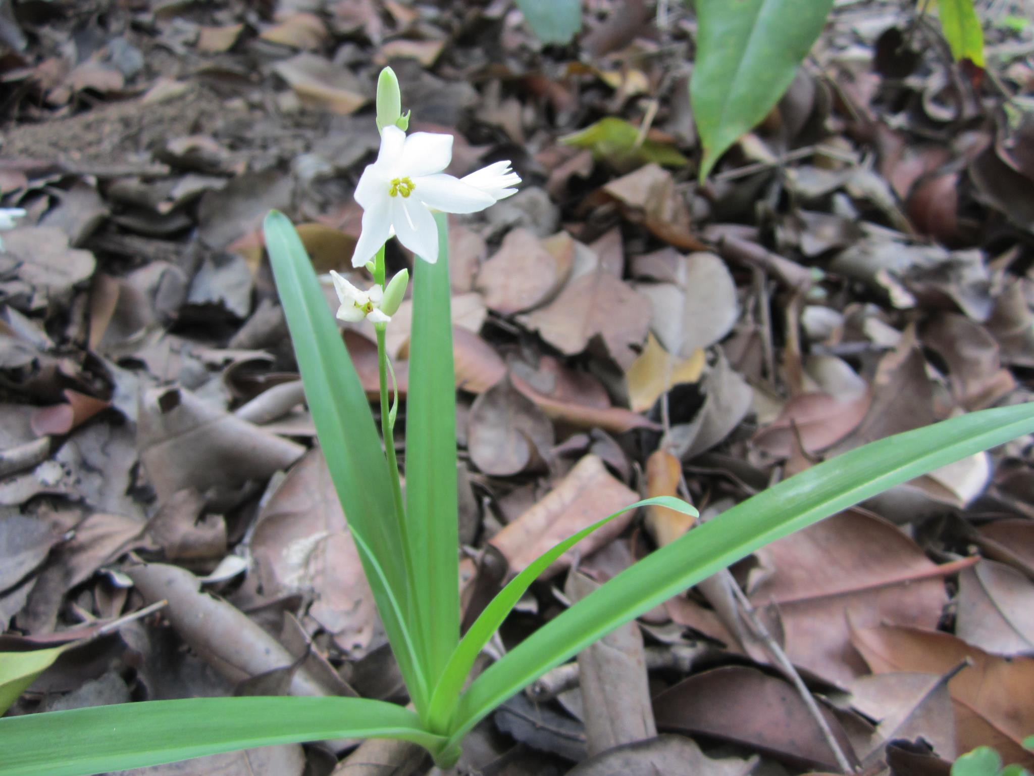 Nature, Zephyranthes chlorosolen (syn. Cooperia drummondii) or wild rain lily.